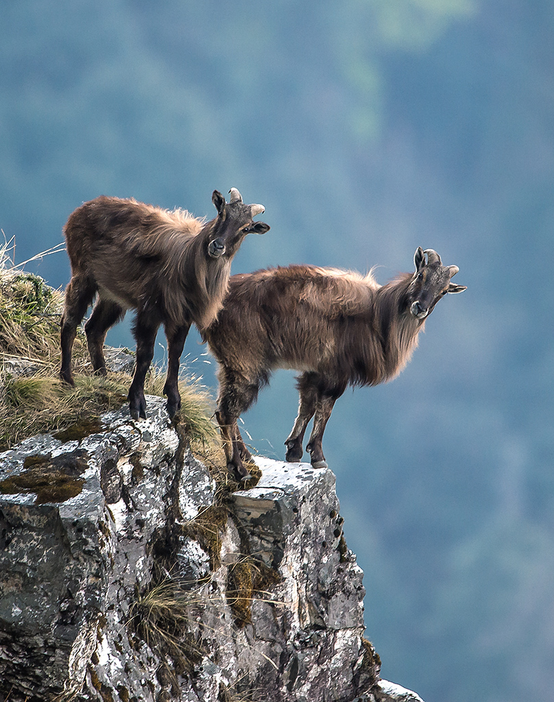 Himalayan Tahr of Uttarakhand